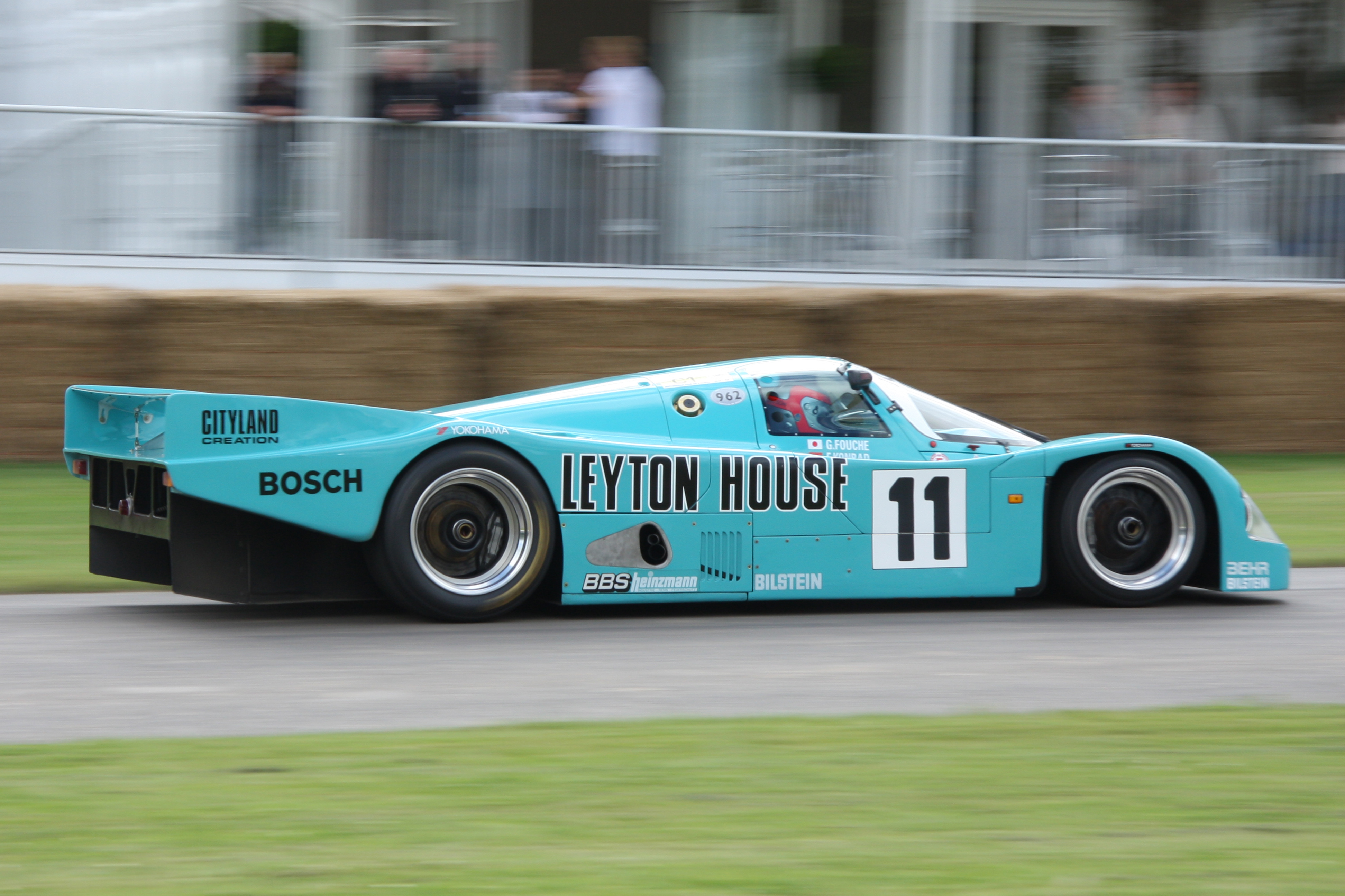 1987 Porsche 962 C, chassis #118CK-3, raced by Kremer Racing, powered by a Porsche Type 935/79 Flat 6 / 4v DOHC / 2826 cc Turbo engine - It Raced at Le Mans in 1987 and 1988 see here at